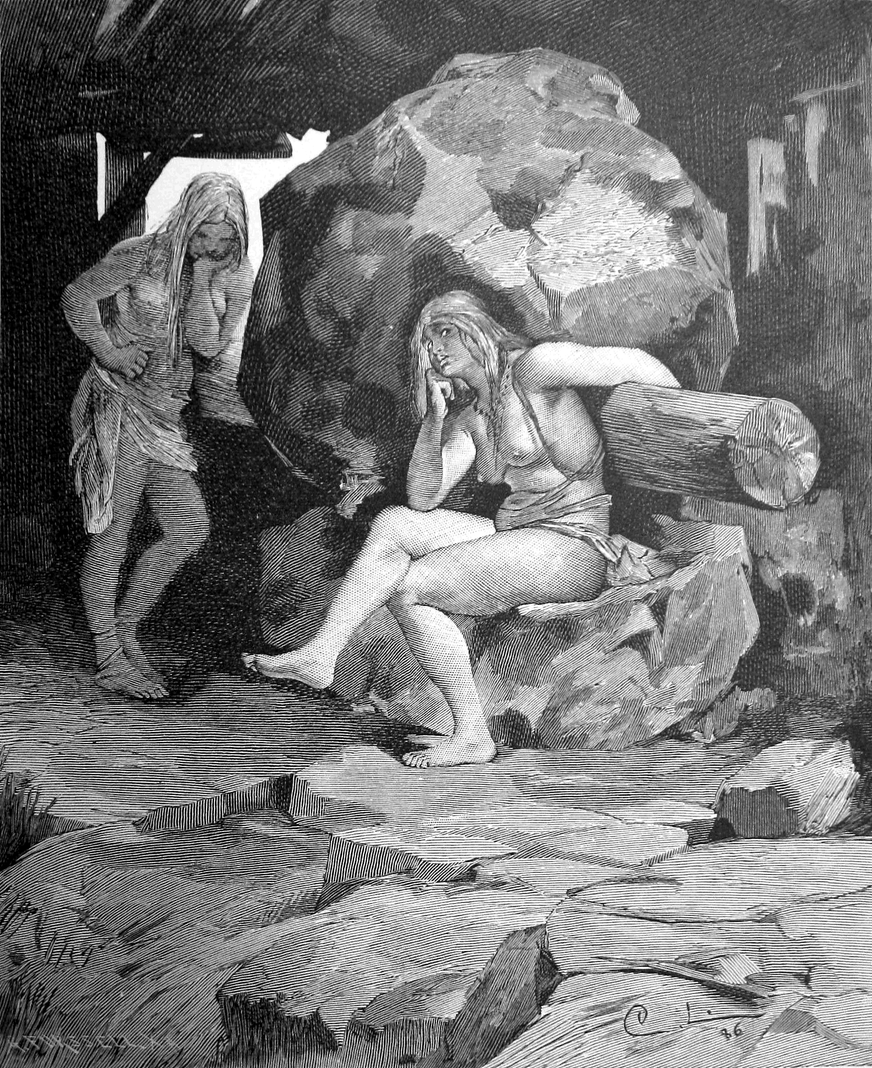 The engraving shows the giantesses Fenja and Menja beside the mill Grótti. One giantess is sitting near the center of the frame while the other is standing by the side. In the bottom right corner there is the signature of Carl Larsson (1853-1919), the artist and a date of [18]86. In the bottom left corner there is the signature of Gunnar Forssell (1859-1903), the xylographer. The image list on page 468 in the book describes this image as "Fenja och Menja vid kvarnen Grotte".